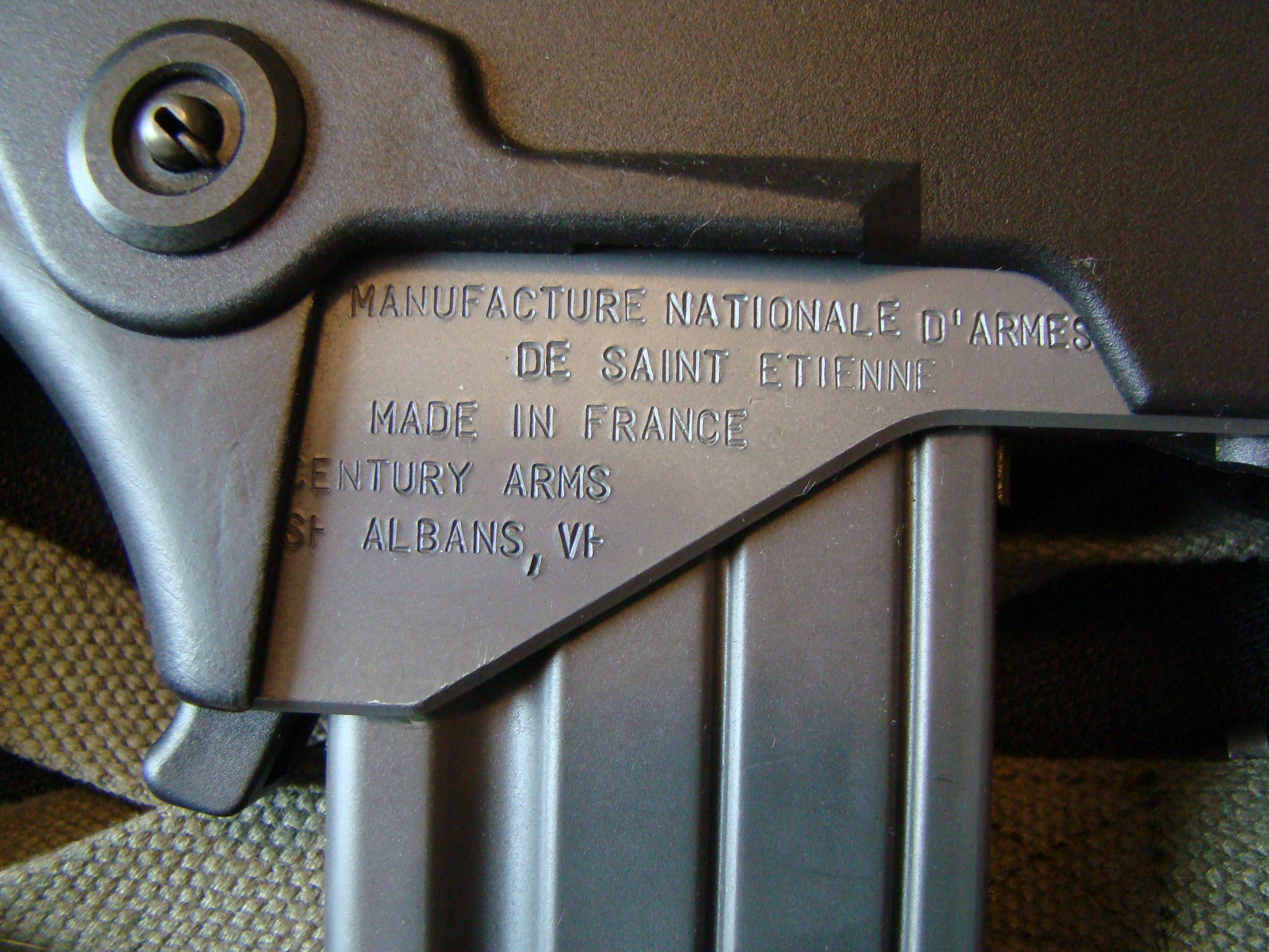 Century Arms MAS .223 (FAMAS) left side receiver markings